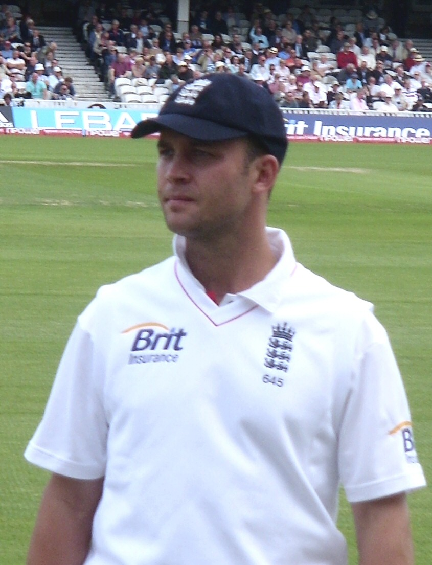 Trott fielding at Ther Oval in the England v Pakistan Test match